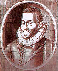 Pictures of Anthony I of Portugal, Prior of Crato, disputed 18th King of Portugal.